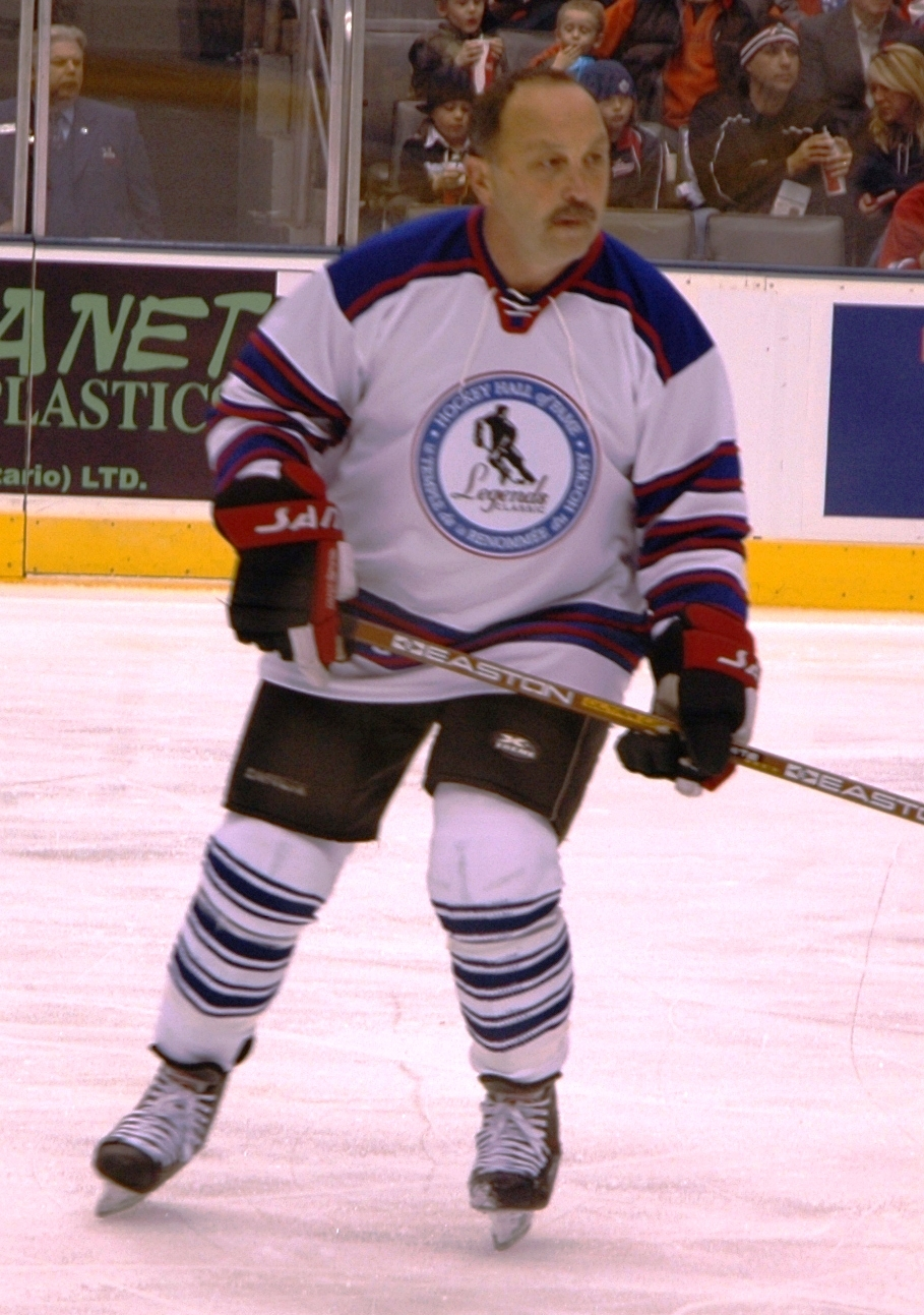 Bryan Trottier played with the All-Star Legends 2008 in Toronto